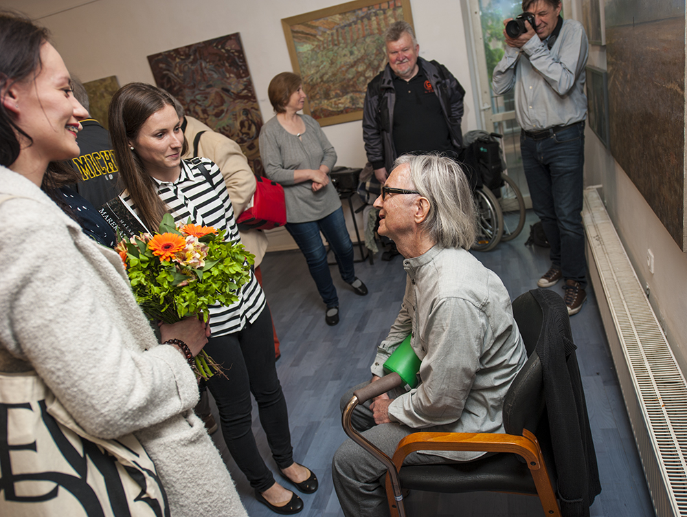 Artist Marek Alaszewski from Poland during an opening of his latest exhibition of paintings in Warszawa. April, 26 2018.